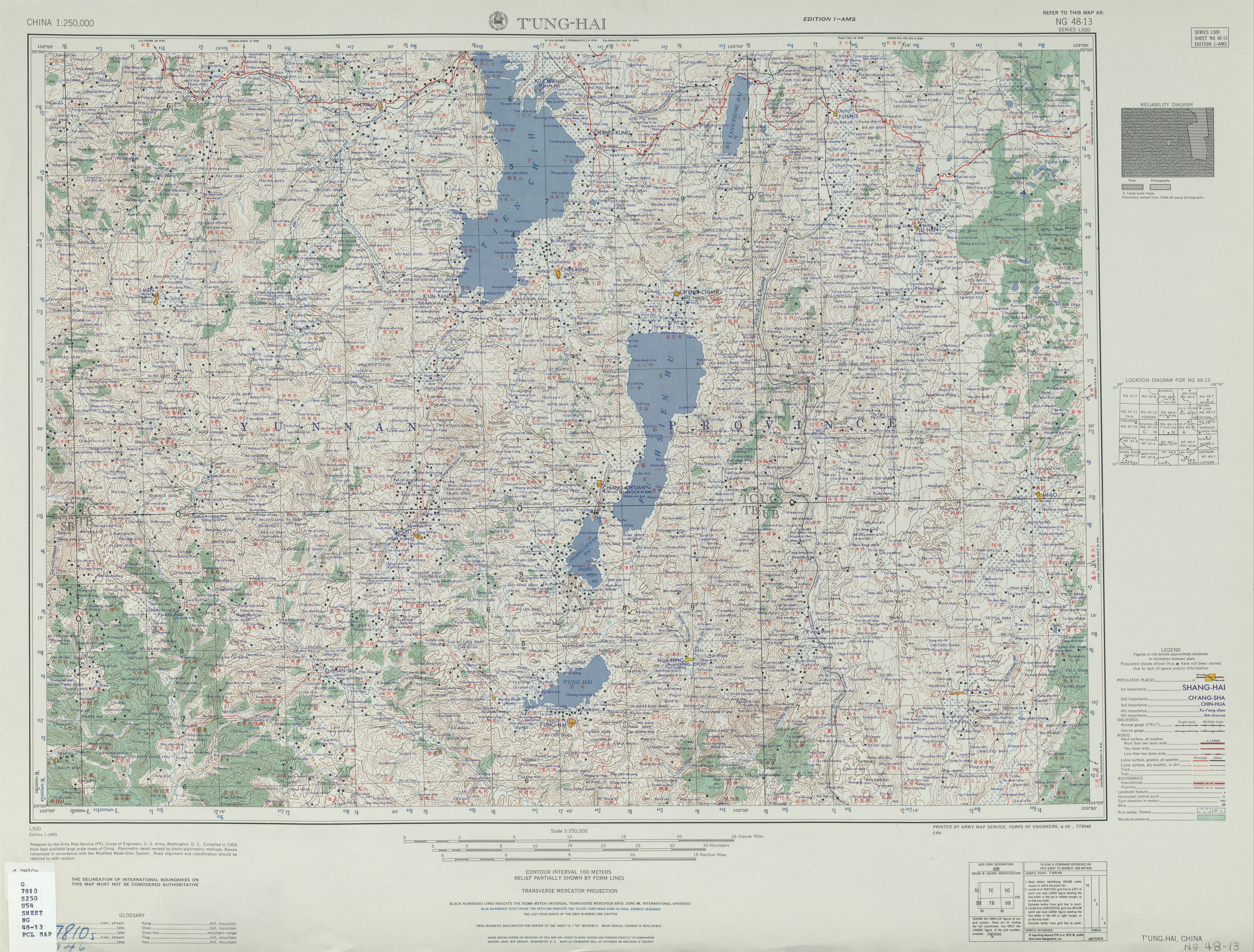 Map of Tonghai (T'ung-hai) area, Yunnan